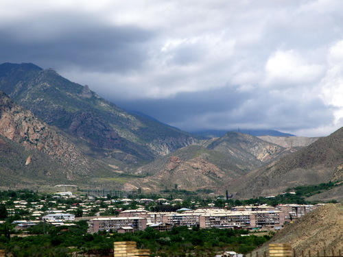 Agarak town Armenia